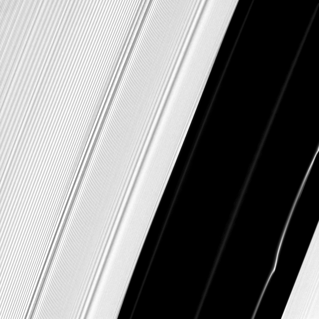 Several structures in Saturn's A ring are exposed near the Encke Gap in this Cassini image. Structure is clearly visible in the ringlets that occupy the Encke Gap in the lower right of this image. A peculiar kink can be seen in one particularly bright ringlet at the bottom right. To view vertical structures in these kinky, discontinuous ringlets casting shadows during Saturn's August 2009 equinox, see PIA11676. Nearly uniform striations in the A ring created by the gravitational effects of the moon Pan dominate the left of this image. Saturn is out of the frame to the right. Also visible are two waves to the left of the Encke gap. See PIA10501 to learn more about the waves present here. This view looks toward the southern, unilluminated side of the rings from about 18 degrees below the ringplane. The image was taken in visible light with the Cassini spacecraft narrow-angle camera on June 3, 2010. The view was acquired at a distance of approximately 177,000 kilometers (110,000 miles) from Saturn and at a Sun-Saturn-spacecraft, or phase, angle of 60 degrees. Image scale is 700 meters (2,296 feet) per pixel. The Cassini Equinox Mission is a joint United States and European endeavor. The Jet Propulsion Laboratory, a division of the California Institute of Technology in Pasadena, manages the mission for NASA's Science Mission Directorate, Washington, D.C. The Cassini orbiter was designed, developed and assembled at JPL. The imaging team consists of scientists from the US, England, France, and Germany. The imaging operations center and team lead (Dr. C. Porco) are based at the Space Science Institute in Boulder, Colo.